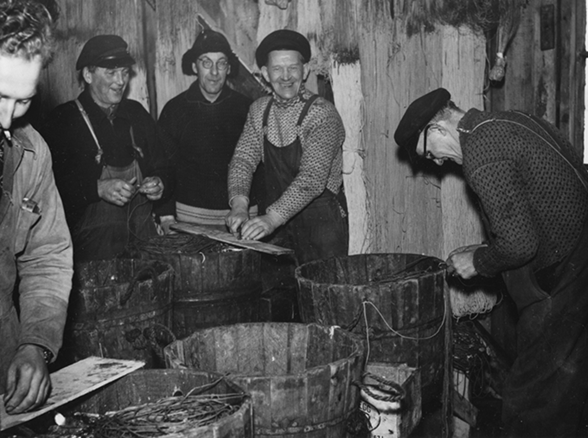 Fishermen put bait on the hooks to the longline. As a bait, typical herring, mackerel, and akkar are used.